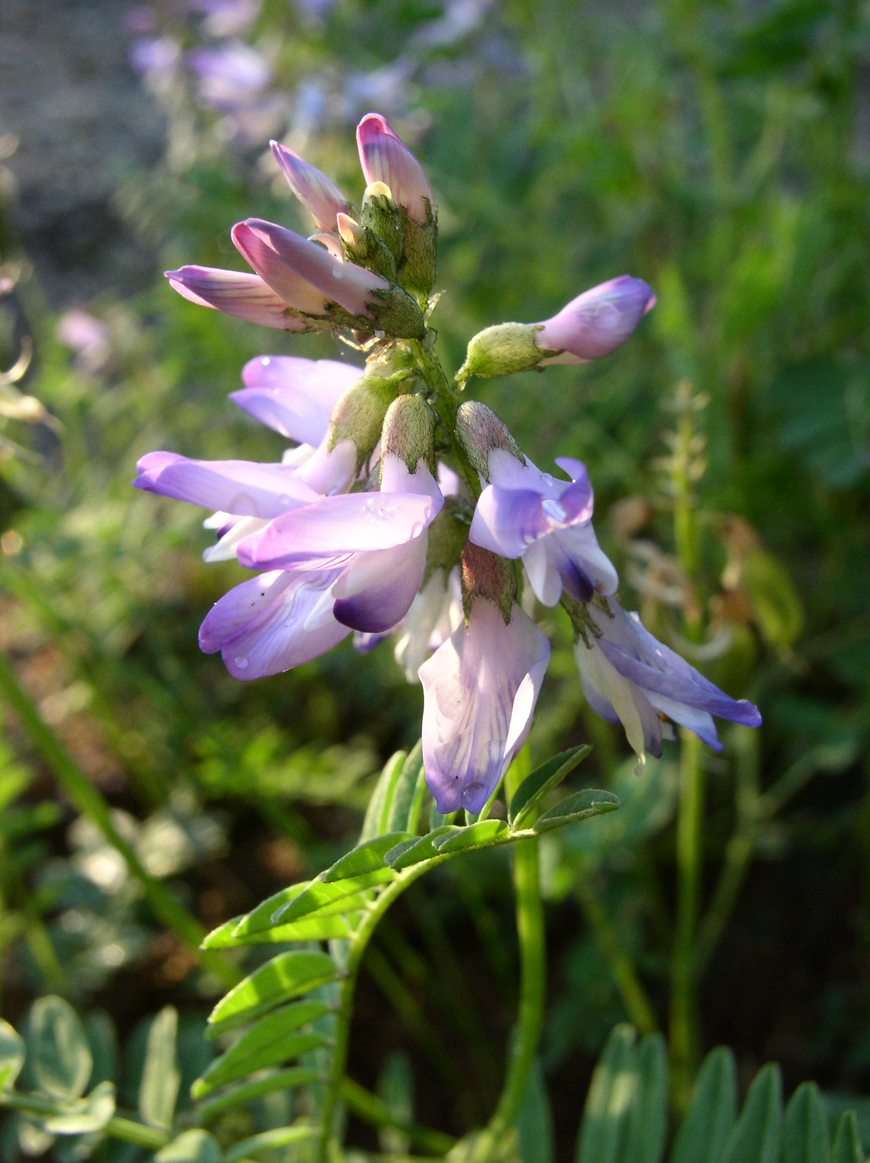 Astragalus alpinus inflorescence in Savonlinna, Finland.